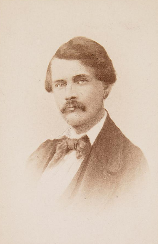 Photograph of Friedrich Strampfer (1823-1890), Austrian actor and theater manager